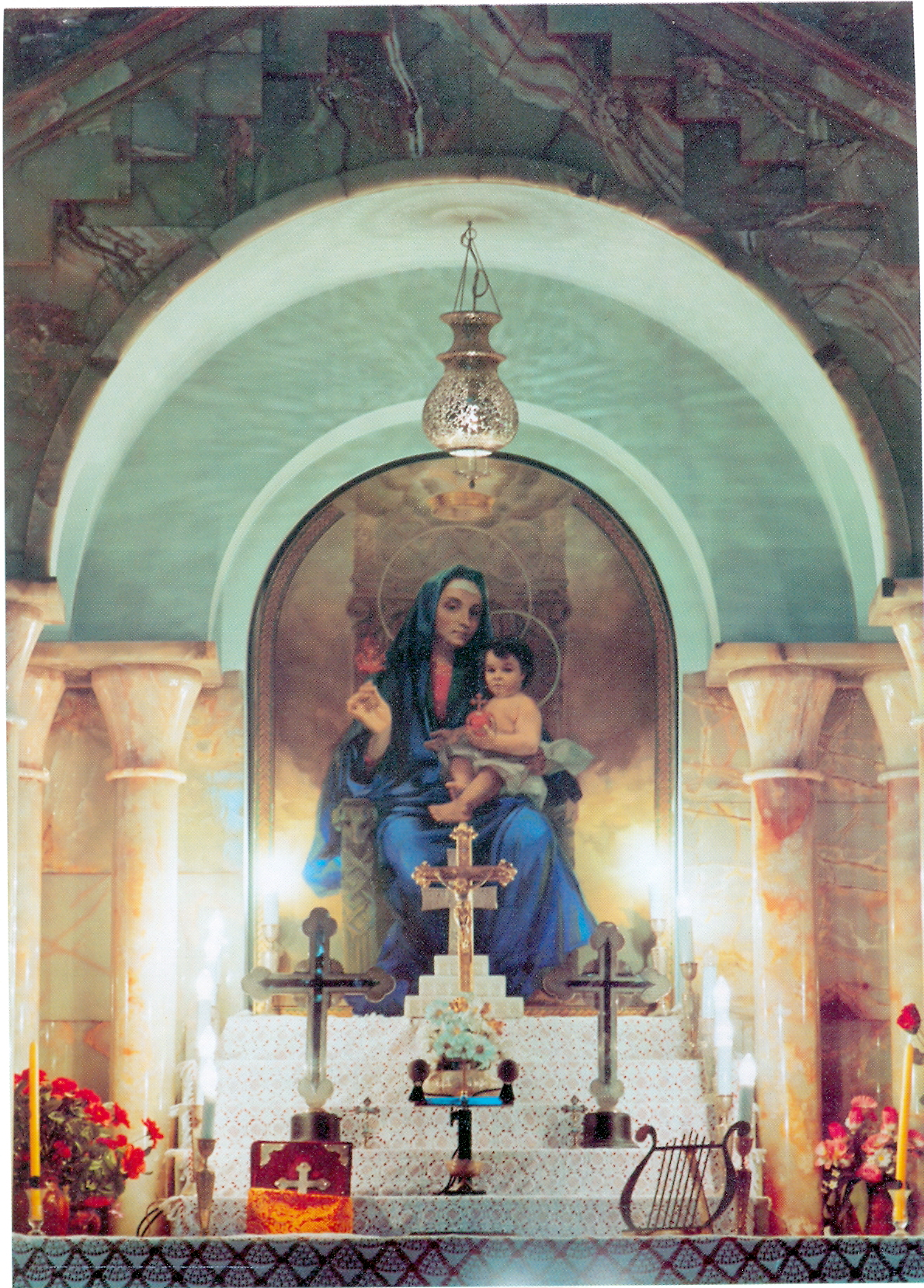 St.Sarkis Church Armenian prelacy of Tehran